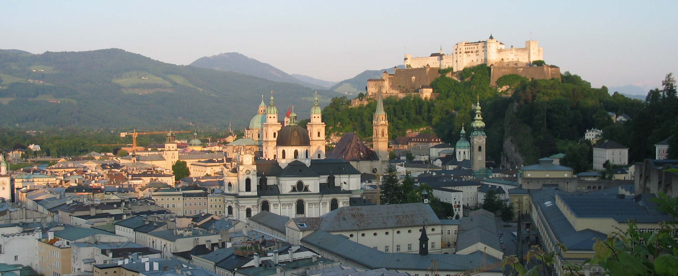 Picture of Salzburg I took 25 May 2004 The Festung or Hohensalzburg Fortress overlooks the great Cathedral in the middle of the Old City.